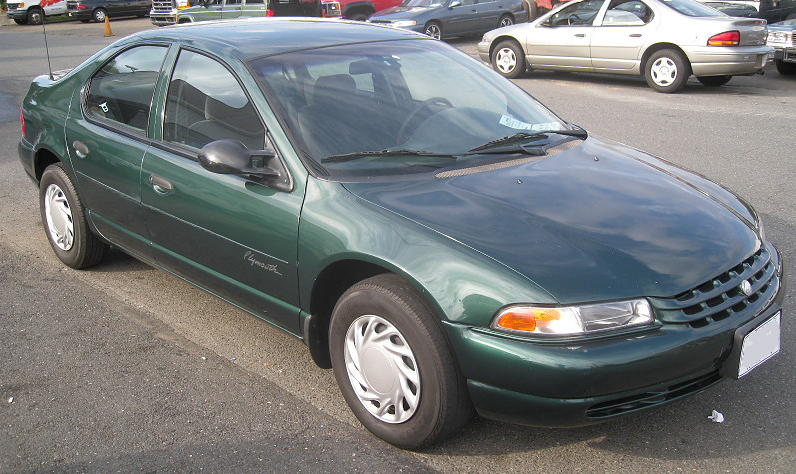 A 1999 Plymouth Breeze